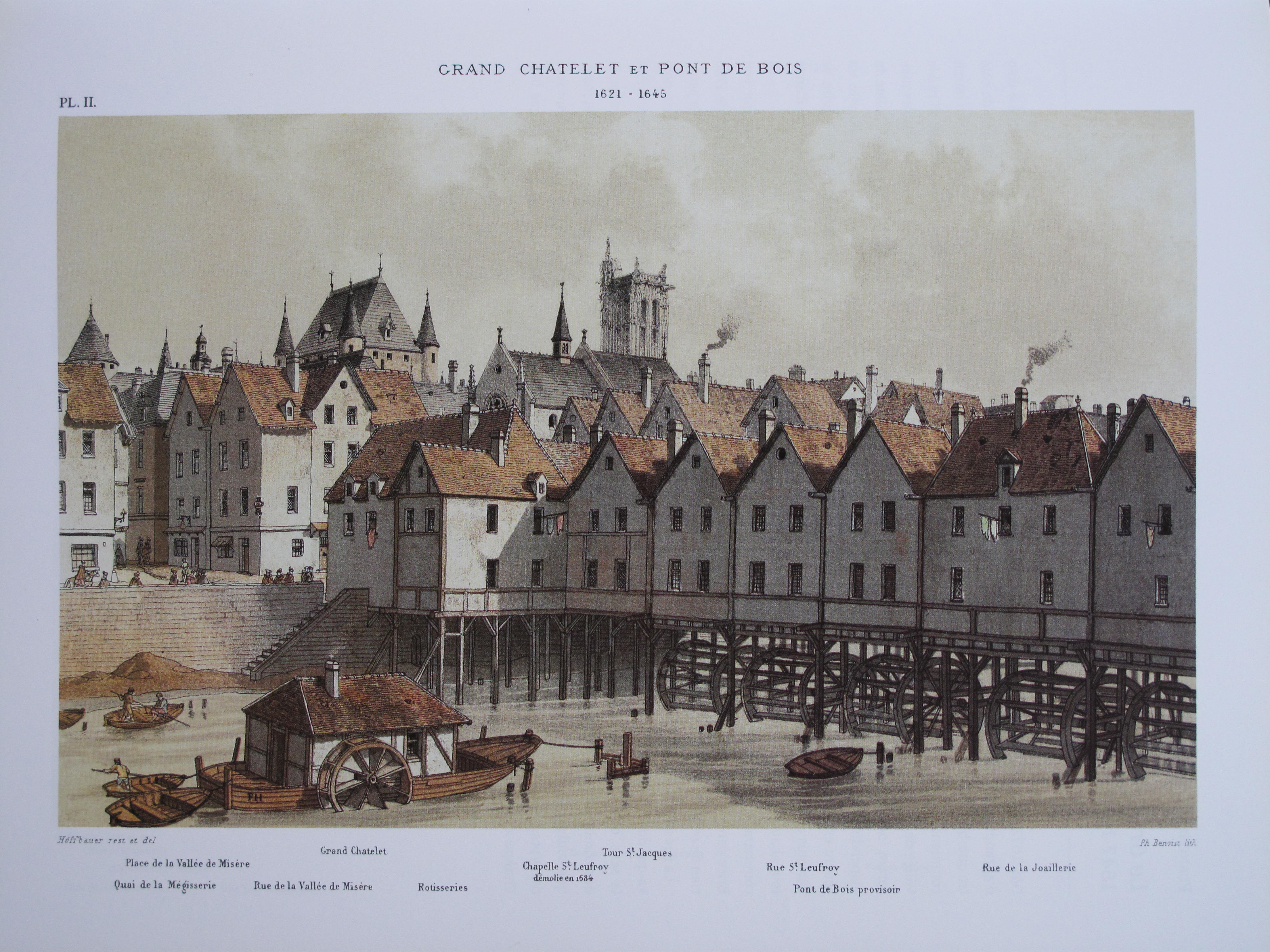 The pont de bois (=wooden bridge) between the île de la Cité and the right bank of Seine river in Paris (France), circa 1580.